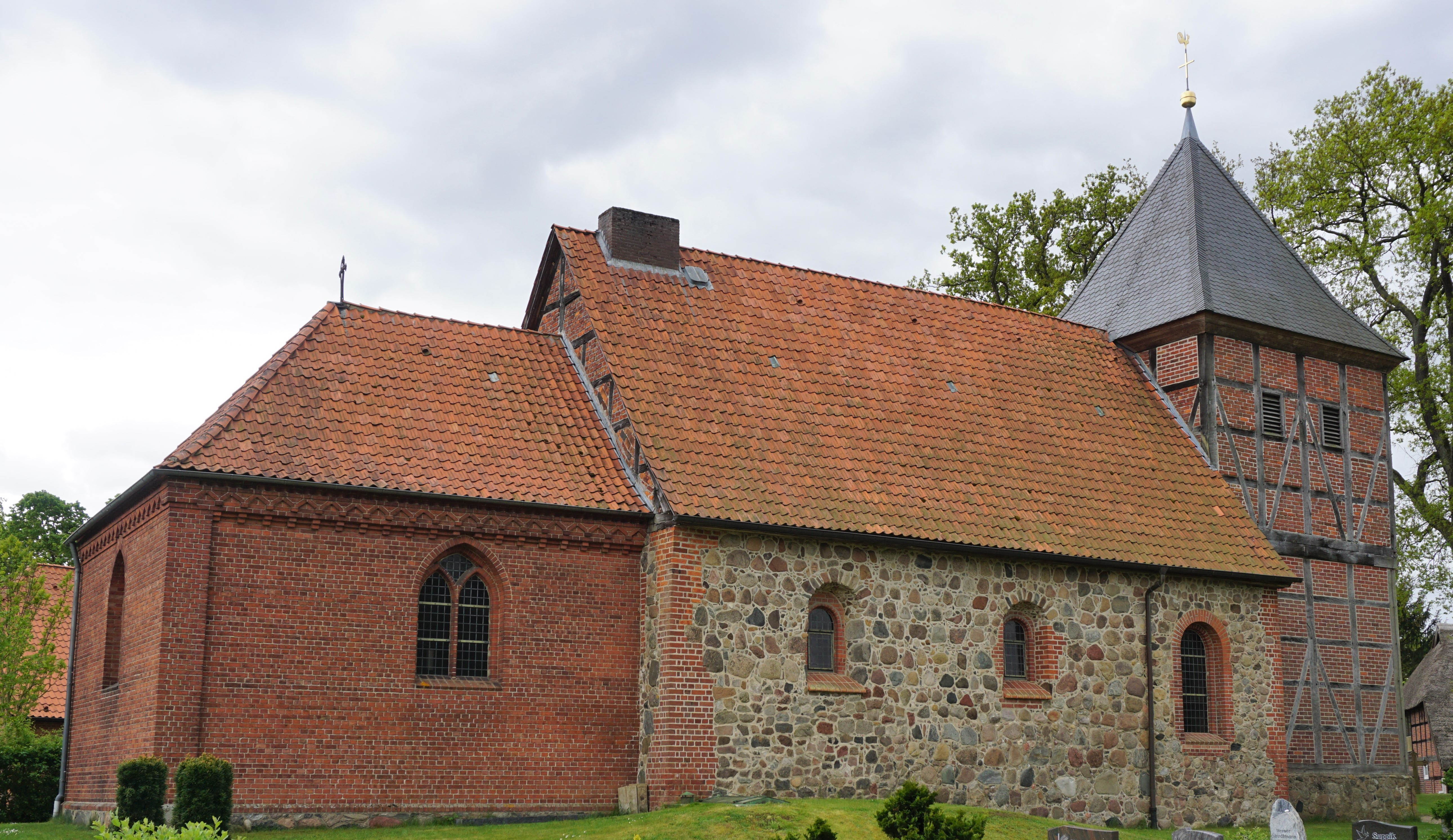 North facade of St. George's Church with fieldstone masonry in Wichmannsburg